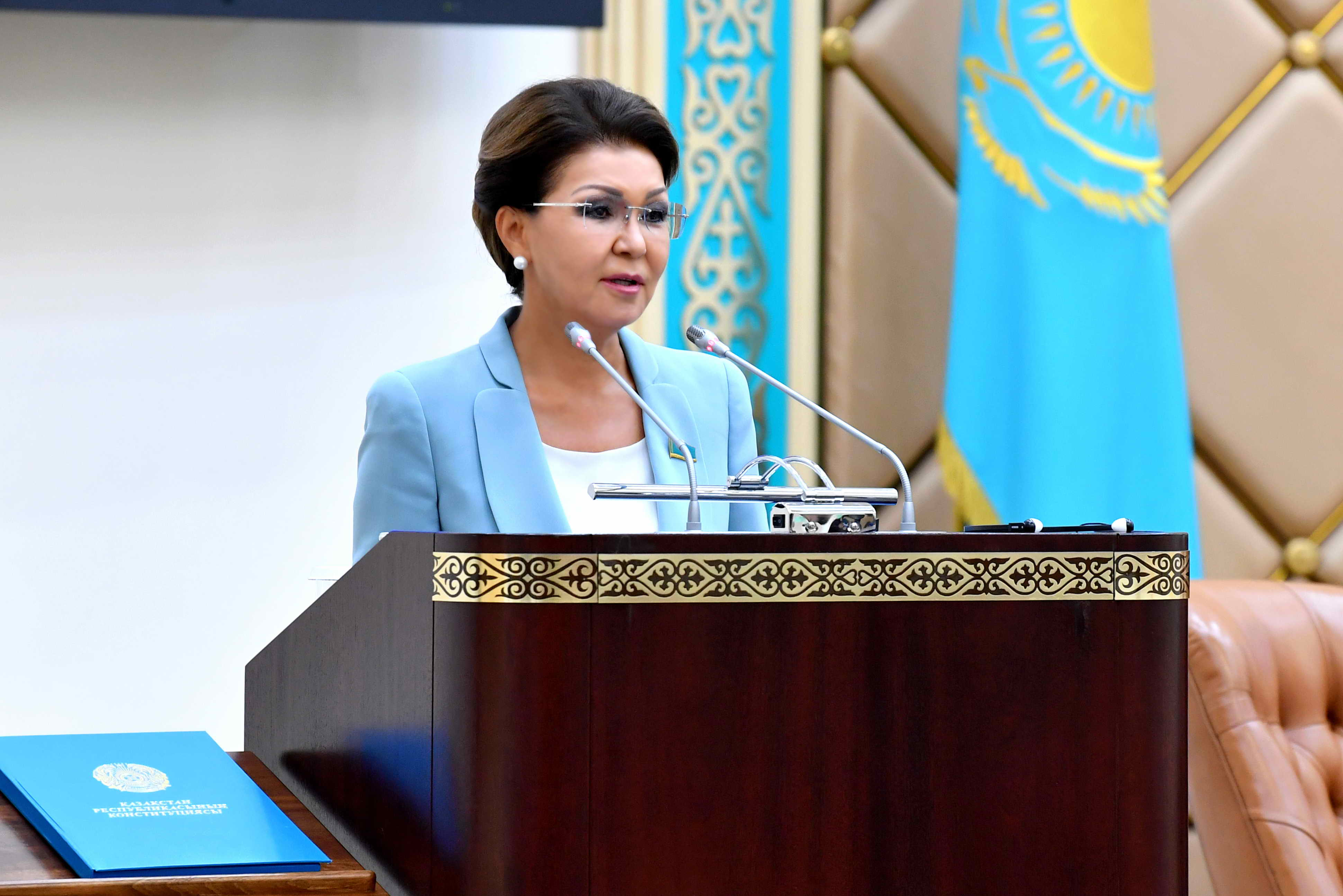 Dariga Nazarbayeva